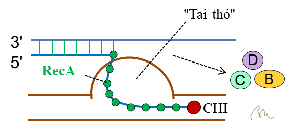 RecBCD pathway of homologous recombination prepare, RecBCD dissolution.